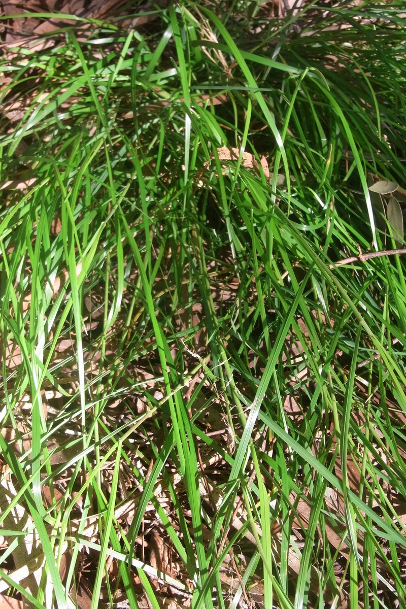 Grass Lane Cove River, Chatswood West, Australia. Likely to be Poa affinis